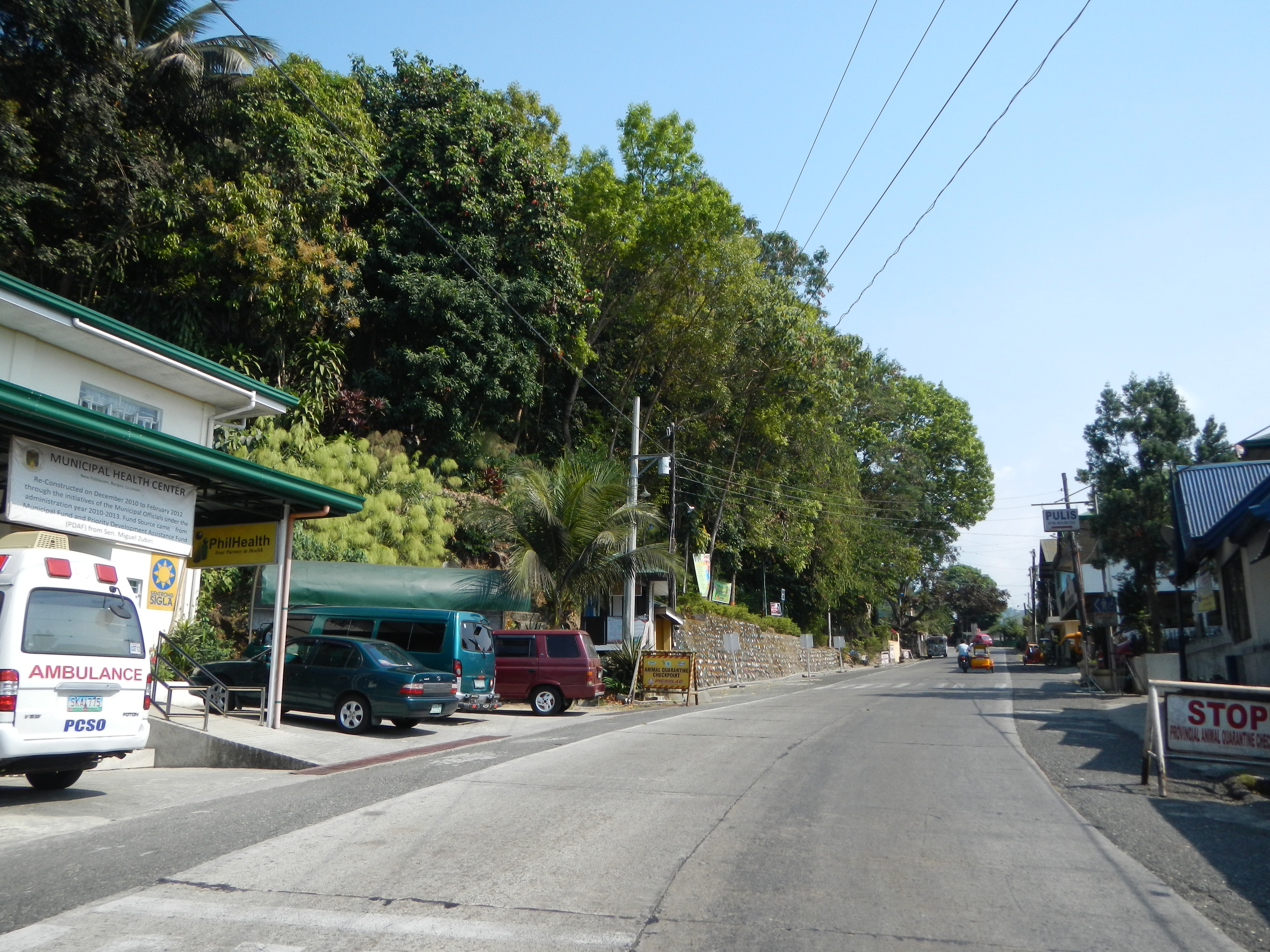 This is a photo of Burgos, La Union province of La Union located in Bauang-Burgos or Naguilian Road formerly Quirino Highway: scenery along the gateway to Town Proper with proliferation of Tiger Grass raw material for household broom Thysanolaena maxima Tiger Grass.